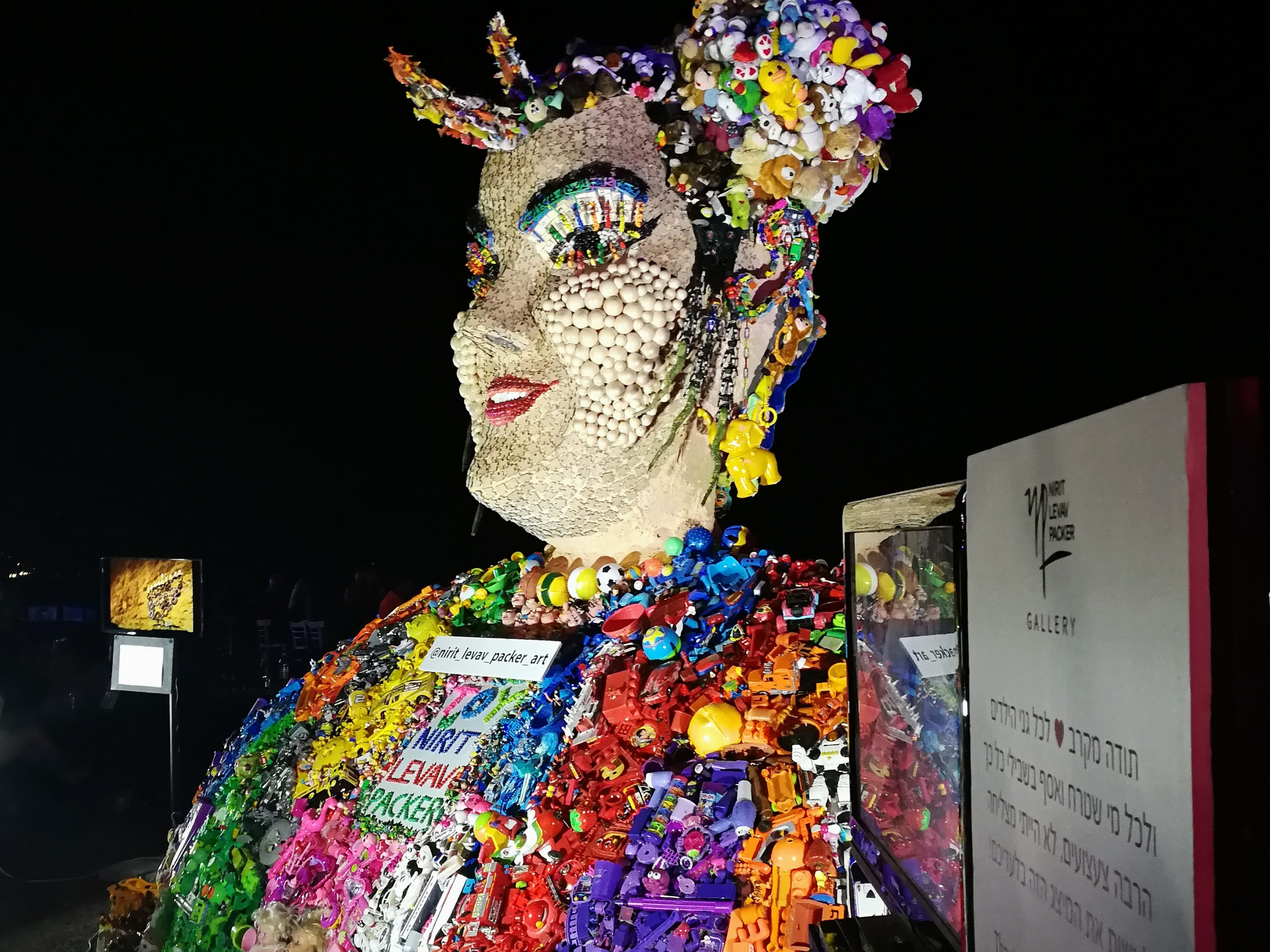 TOY- a huge installation in the image of Israeli Eurovision winner Netta Barzilai made of used toys and game parts on an iron construction. The toys, which were meant to be thrown away, were collected in a huge collection project from kindergartens in Tel Aviv, which the Israeli public also volunteered for.